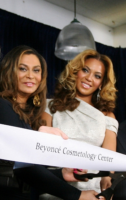 Tina Knowles and Beyoncé at release Beyoncé Cosmetology Center.